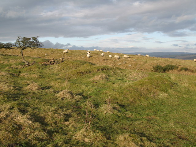 (The site of) Turret 29b Just to the east of Limestone Corner.